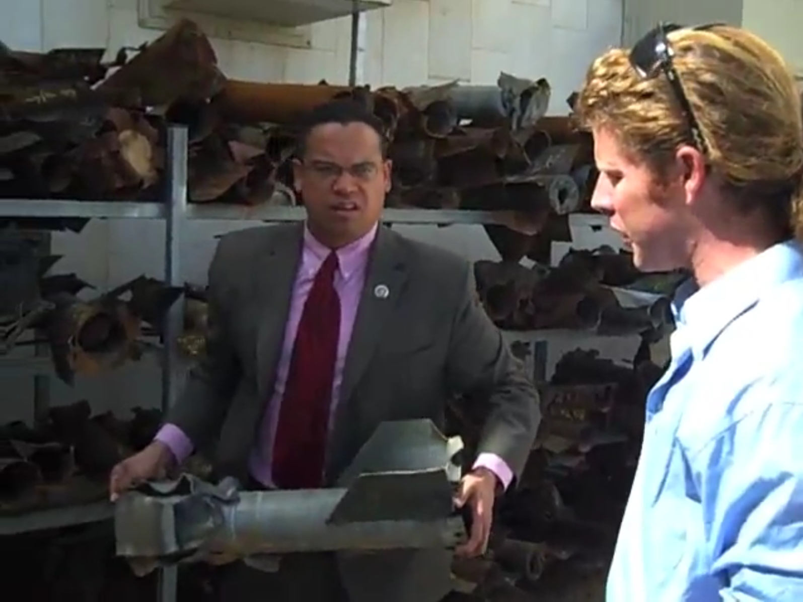 This is a screenshot from a video Congressman Ellison made about his trip to Gaza and Sderot in February, 2009. He is holding the remains of a rocket fired into Sderot from Gaza.